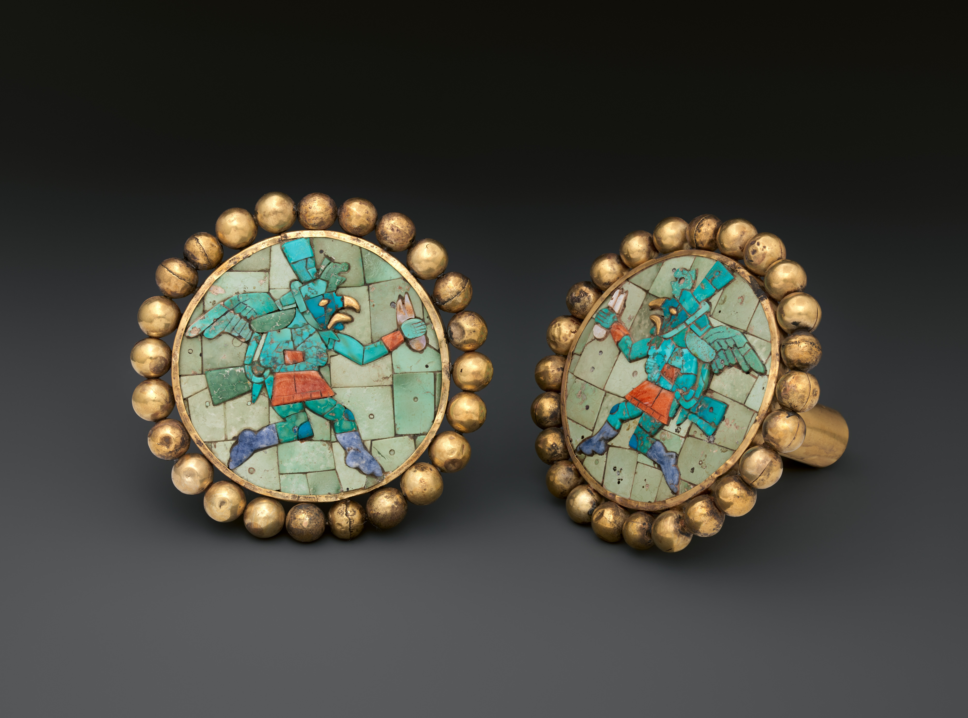 Moche; Earflare; Metal-Ornaments